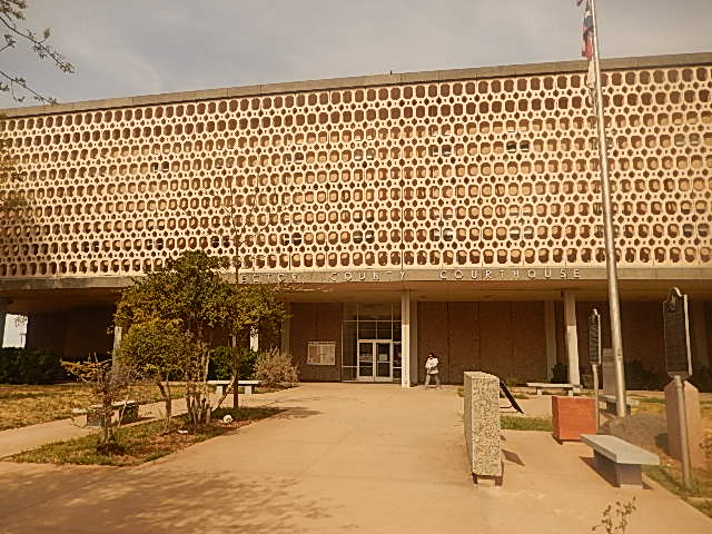 I took photo with Nikon camera of Ector County Courthouse in Odessa, TX.